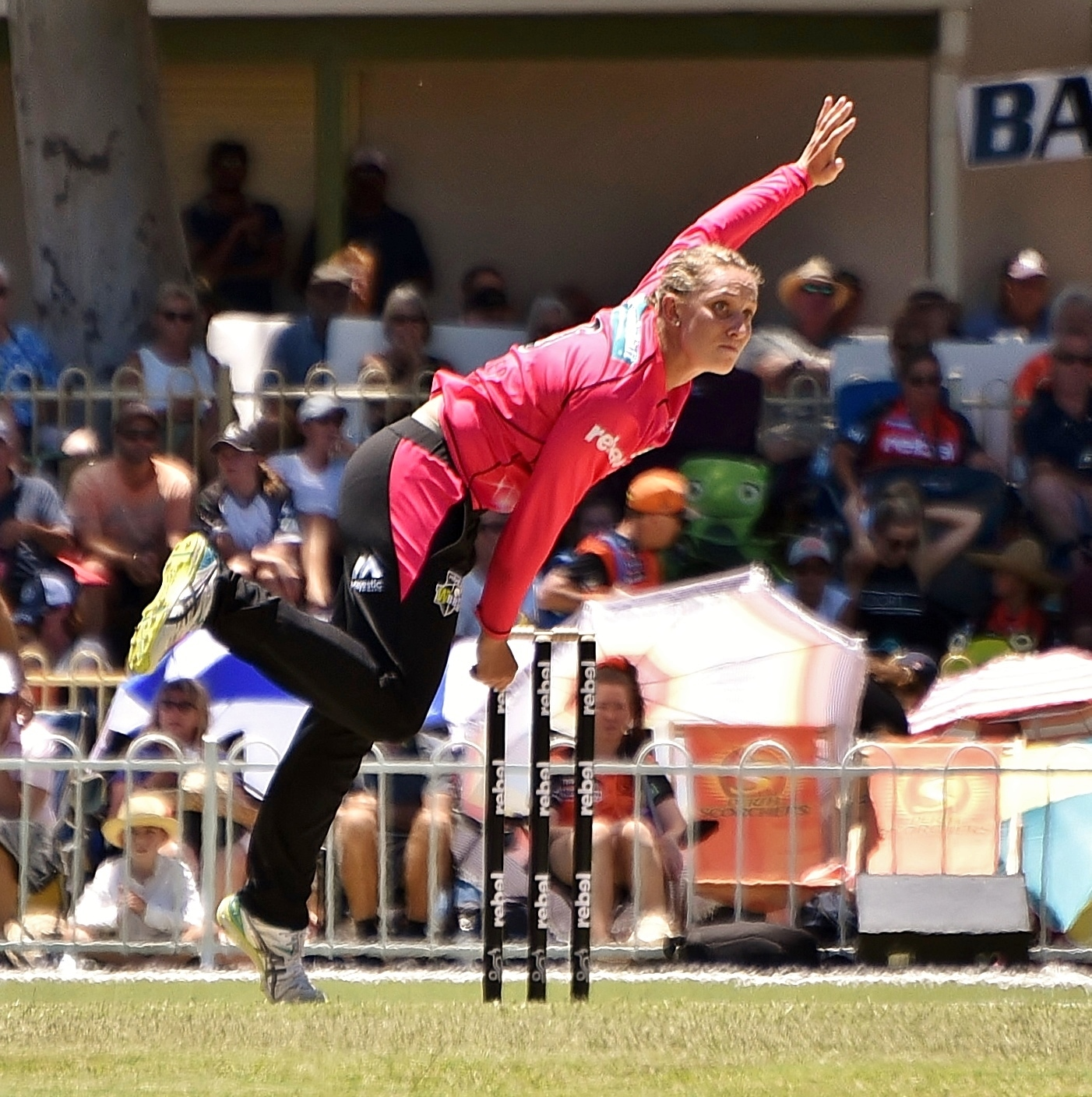 Sydney Sixers all-rounder Ashleigh Gardner bowling against the Perth Scorchers, in a WBBL match at Lilac Hill Park in Perth